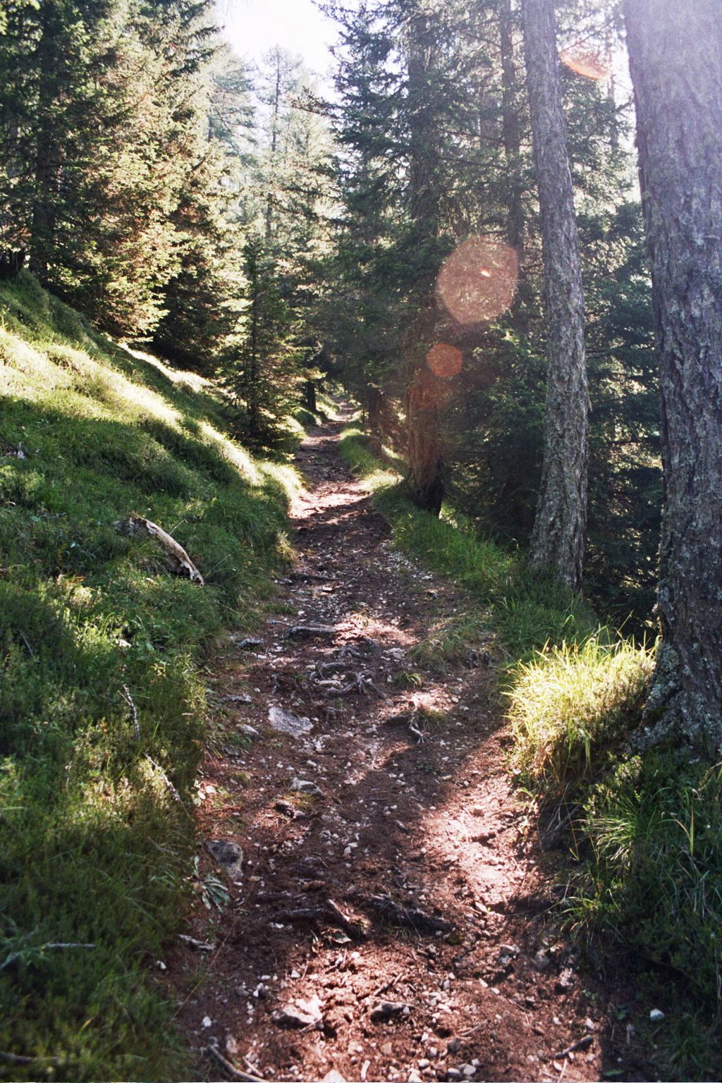 Way through forest to Crusc de Rit in Wengen, South Tyrol